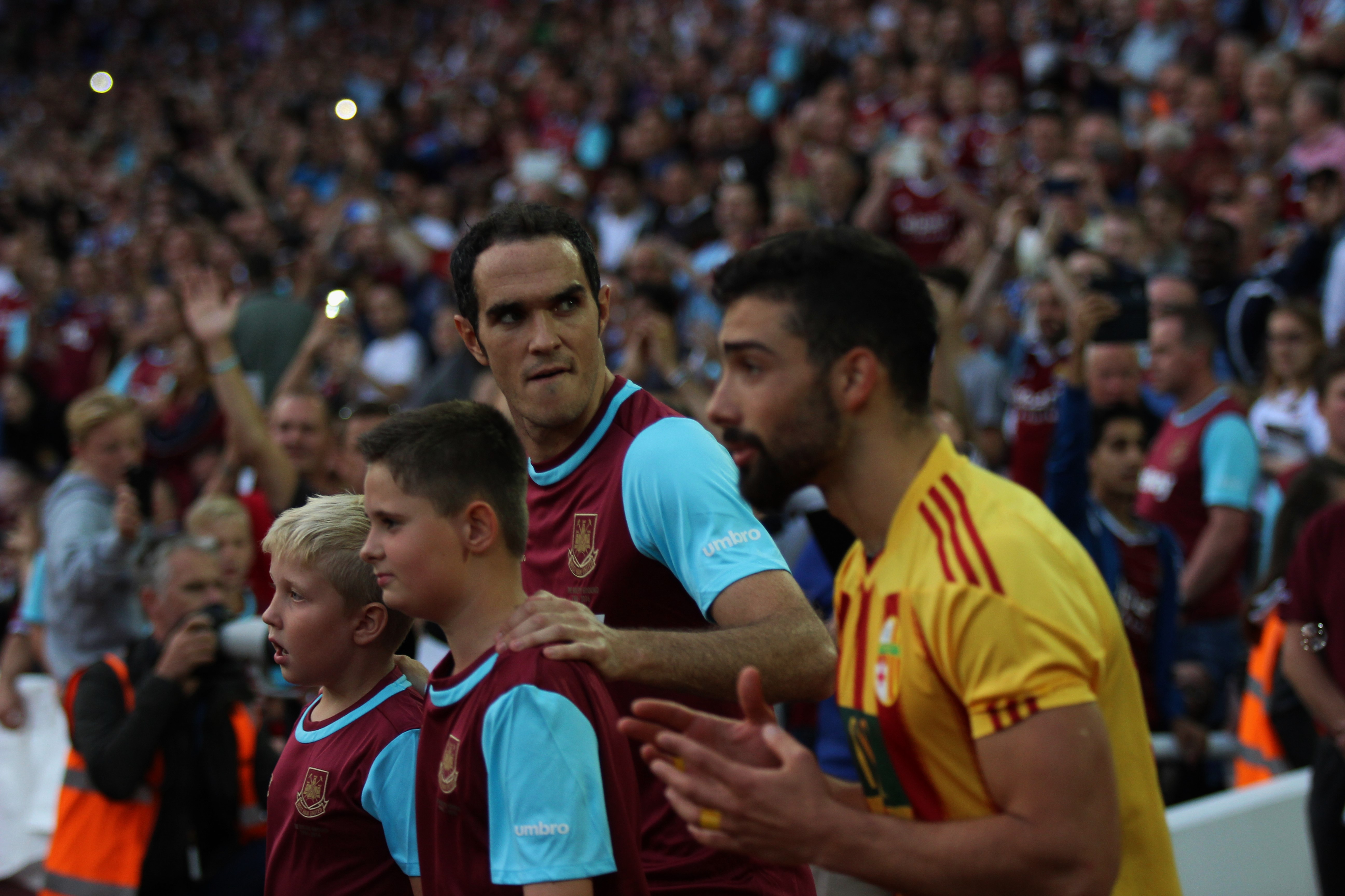 Joey O'brien of West Ham walks out before the game against Birkirkara.